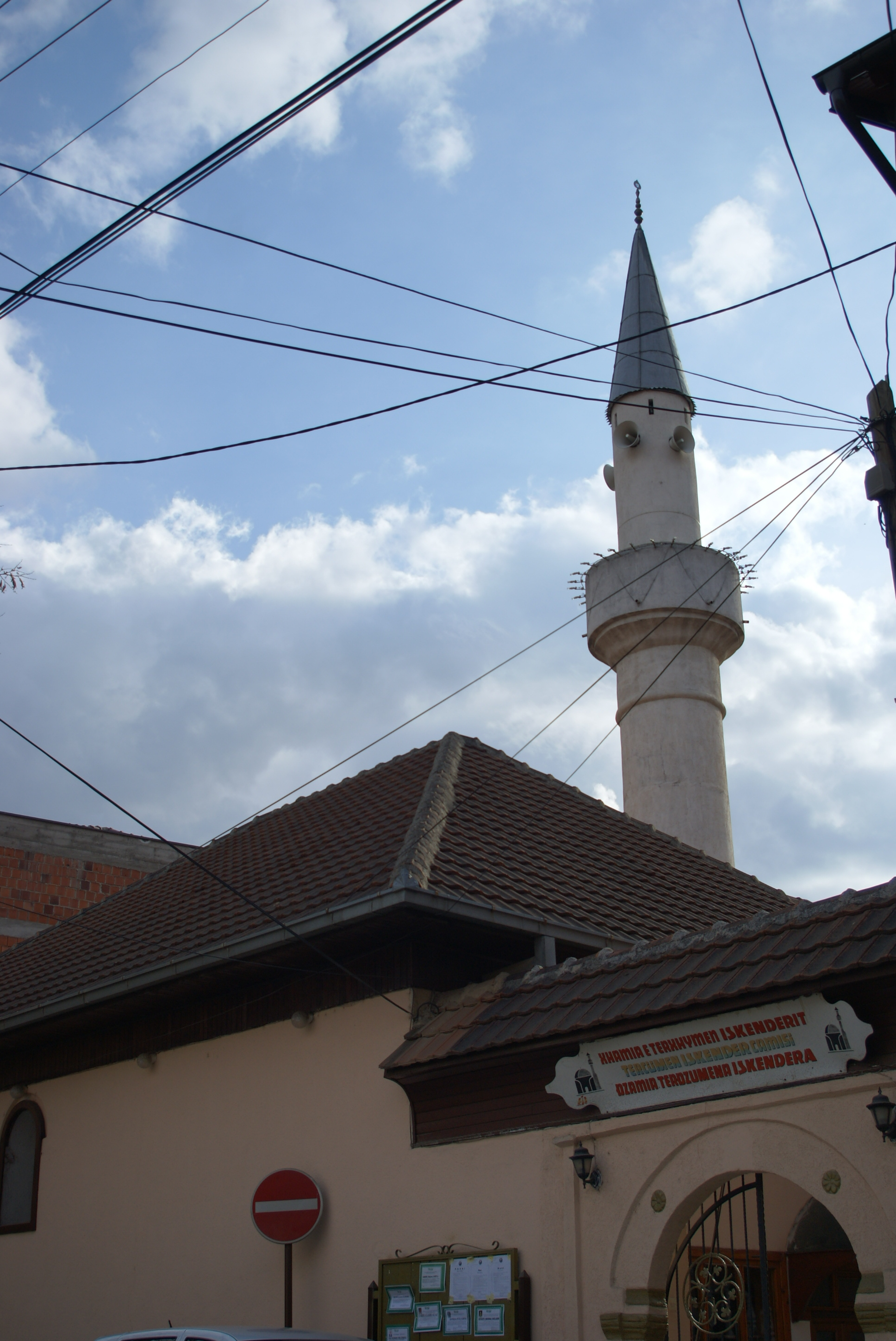 Xhamia e Terxhymen Iskenderit